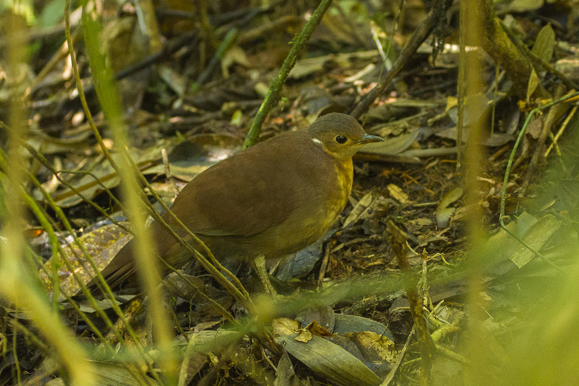 Brown Mesite - Ranomafana - Madagascar_MG_1281